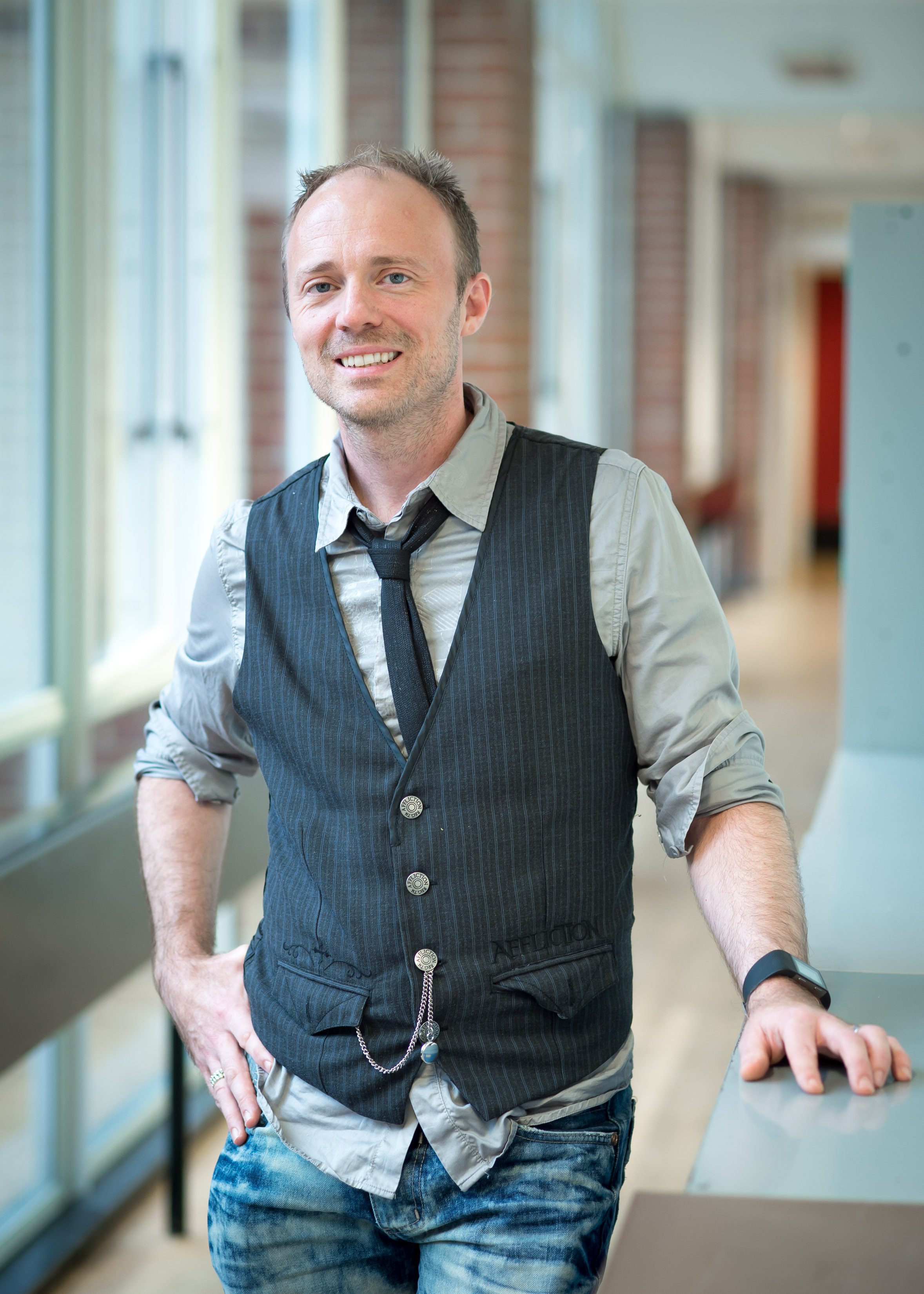 Photo of Professor Andy Field (taken 2015) at the University of Sussex, UK.